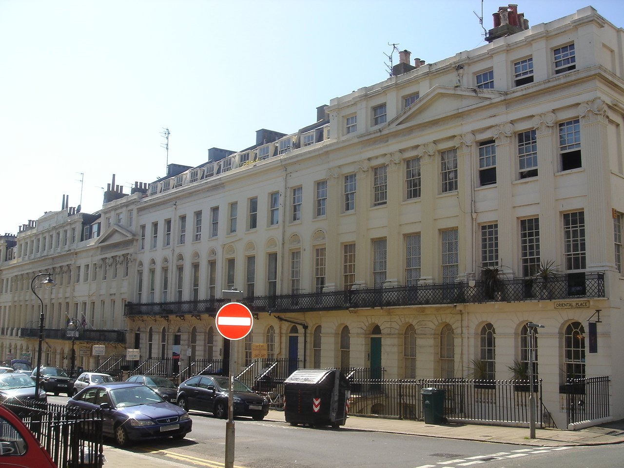 West side of Oriental Place, Brighton, City of Brighton and Hove, England. Built in 1827. Listed at Grade II* by English Heritage (IoE Code 481008)